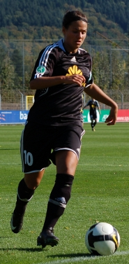 sports, football, women, germany